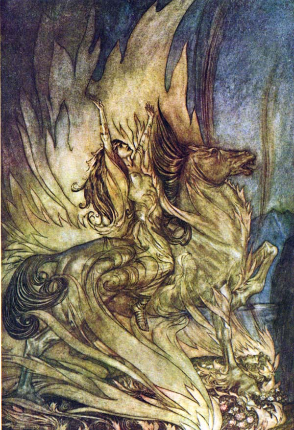 Brünnhilde on Grane leaps onto the funeral pyre of Siegfried.